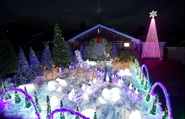 The famous bungalow of The King Of Christmas Lights in a cul-de-sac in Wells, Somerset, England. Which receives thousands of visitors each Christmas.